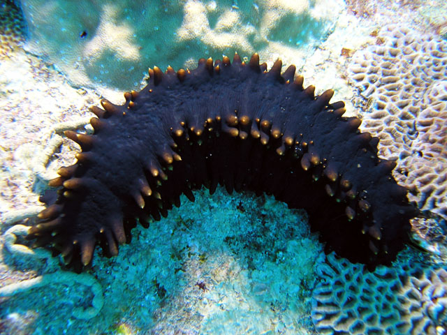 Sea cucumber (Stichopus chloronotus), Pulau Redang, West Malaysia